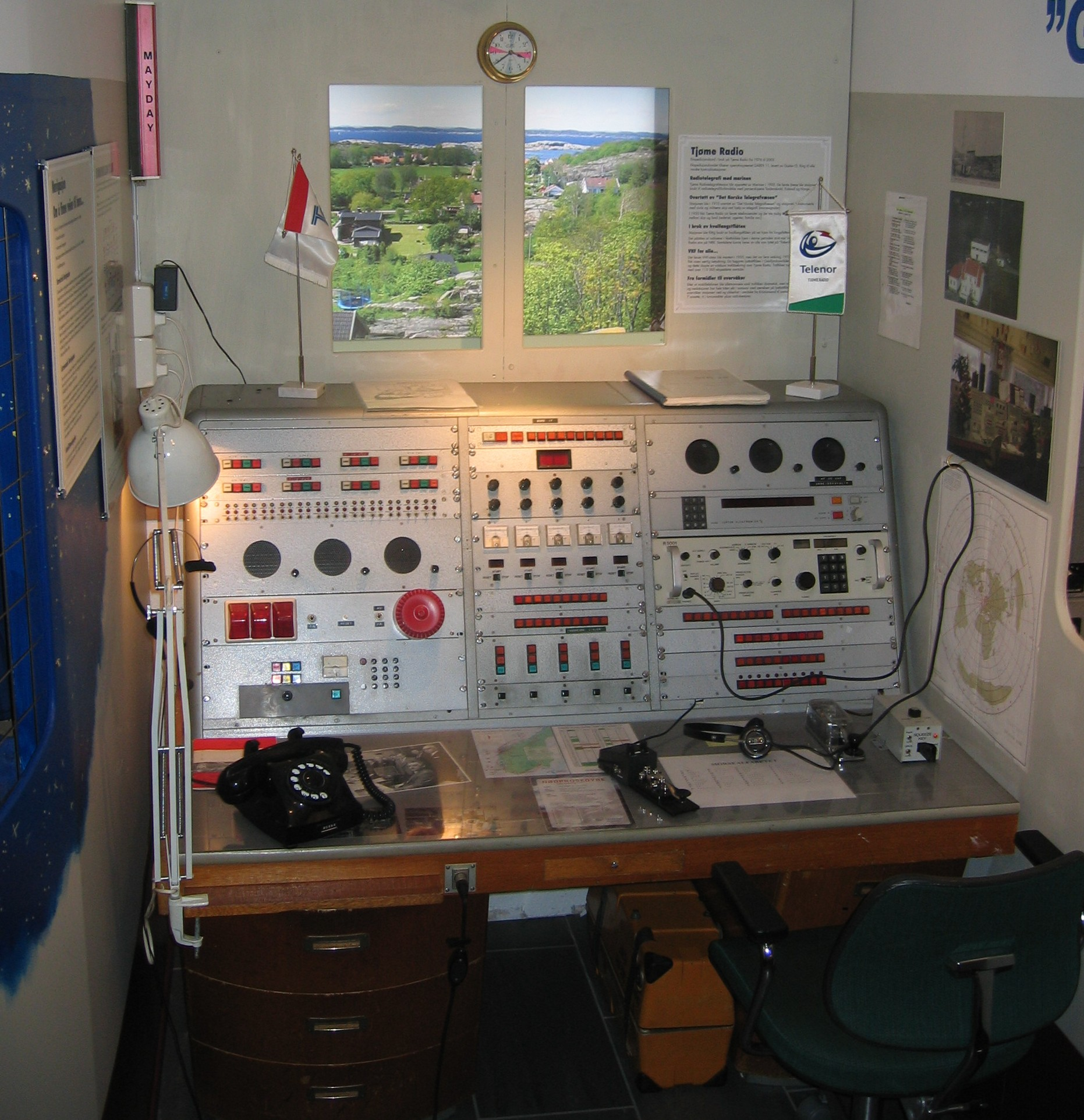 Tjøme radio. Photo from exhibition in Tønsberg.